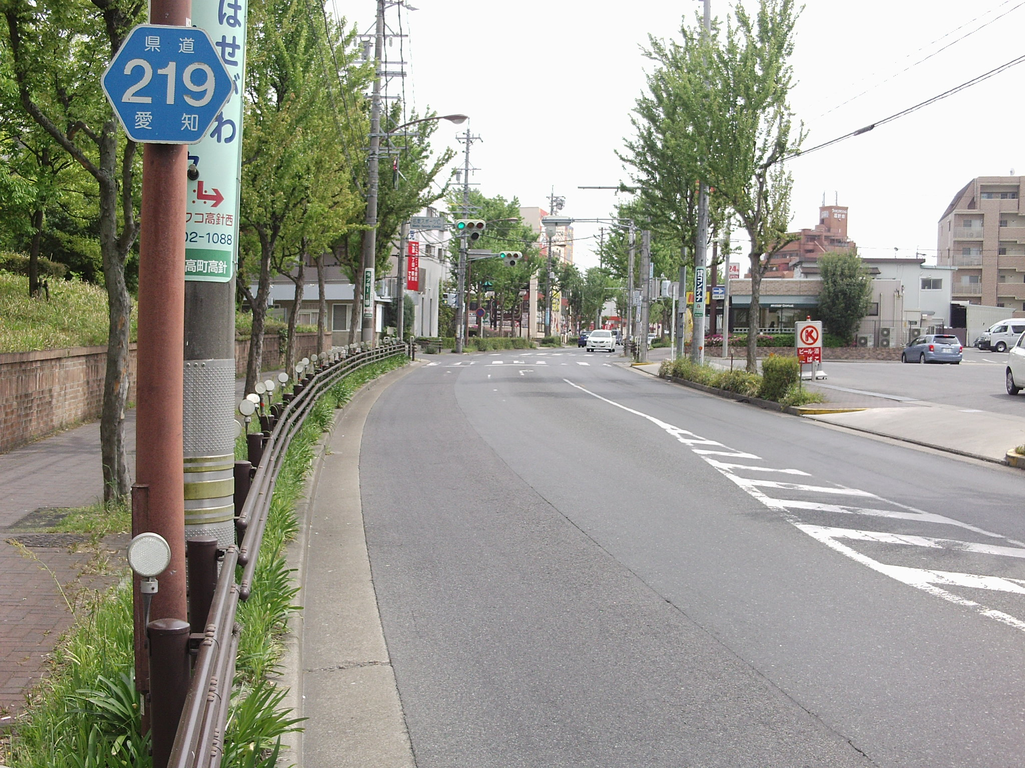 Aichi prefectural road No.219 in Idakachotakabari, Meitō-ku, Nagoya, Aichi.